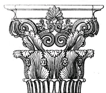 Original Corinthian capital from the Choragic Monument of Lysicrates in Athens 335 BCE